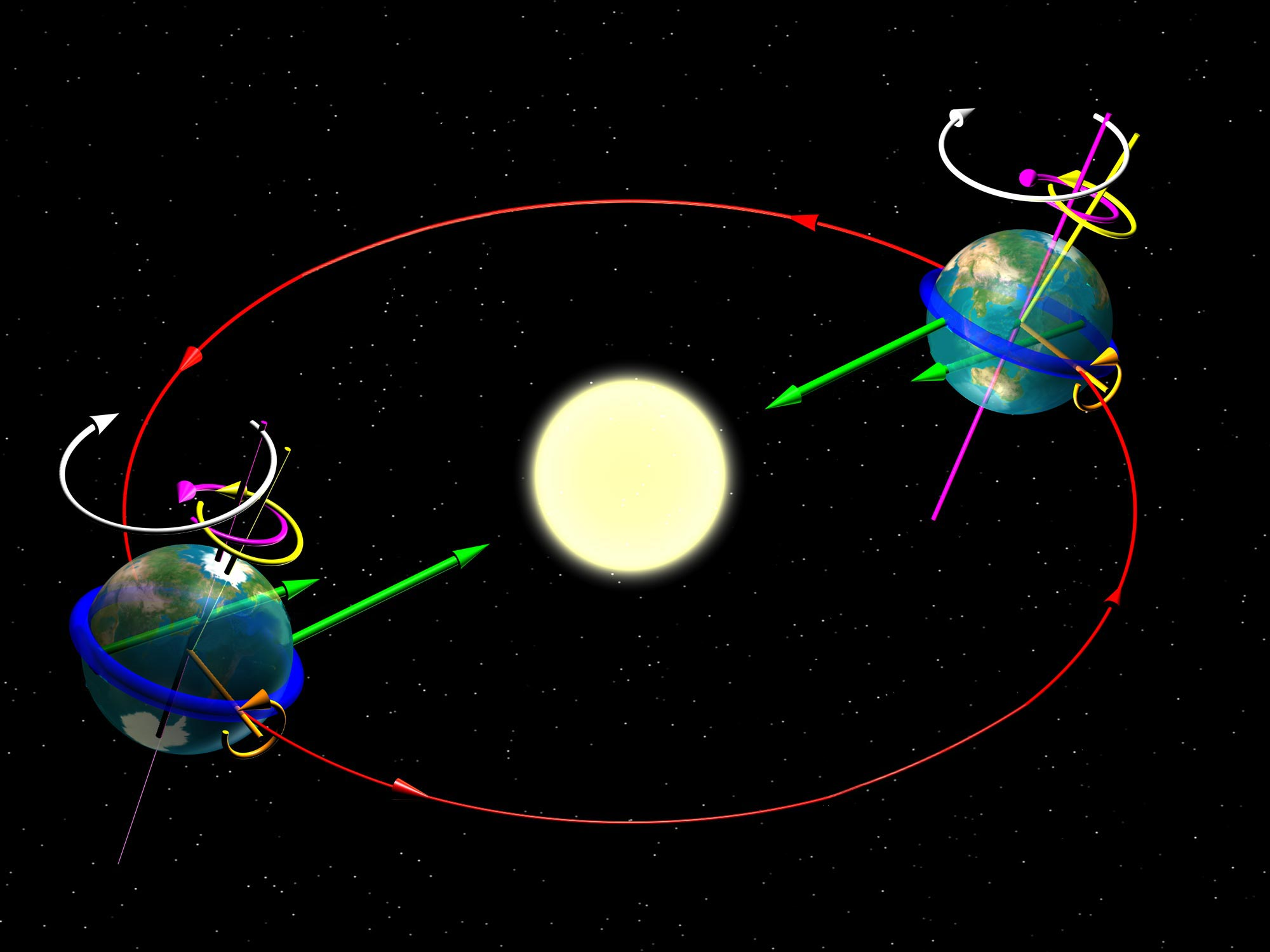 Please see this discussion.